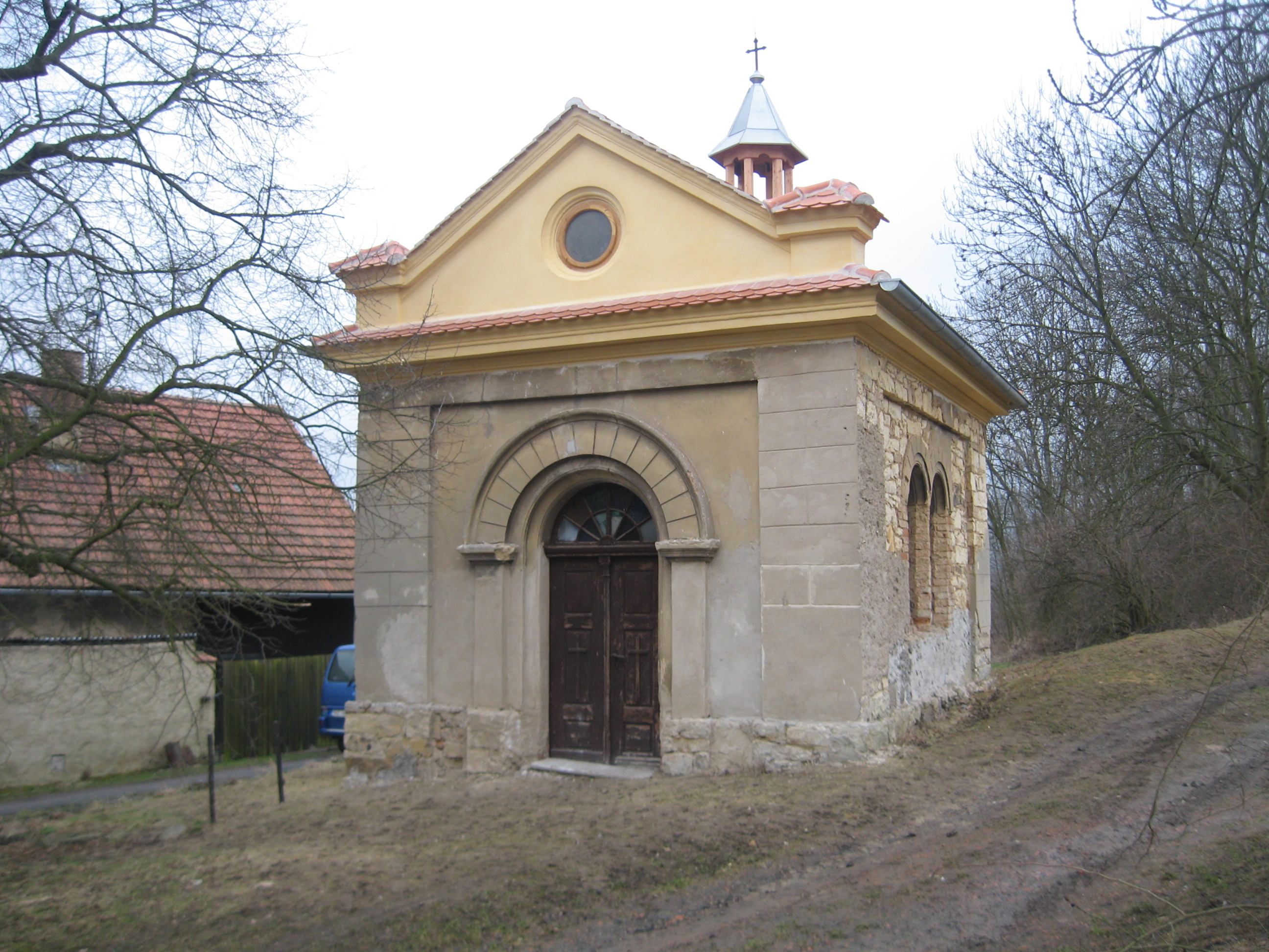 Chapel in Všechlapy from 1882